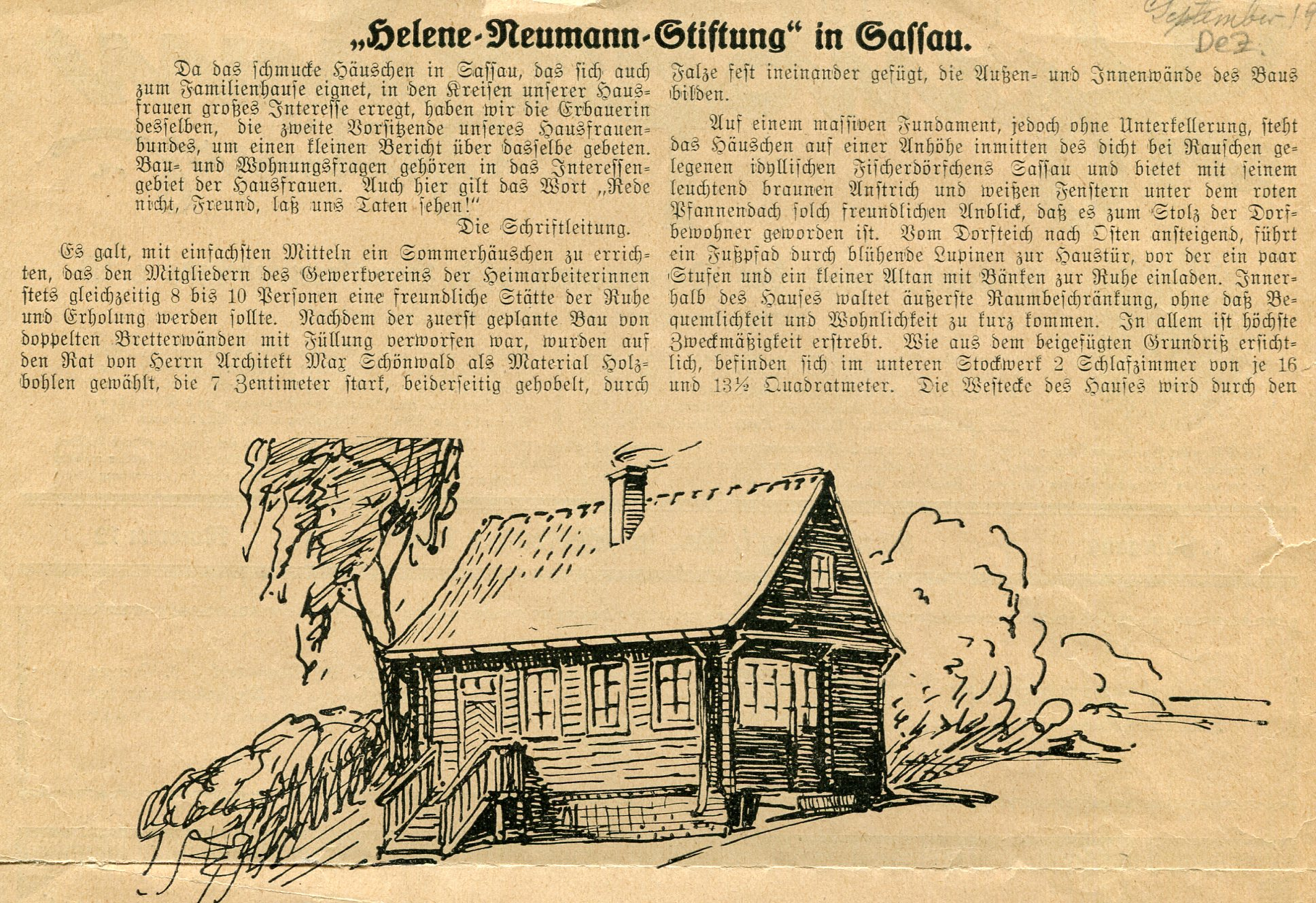 The Helene-Neumann-Haus in Sassau, East Prussia, was built from the "Königsberger Hausfrauenbund" and supported by the Helene Neumann-foundation in the Franz Neumann-Stiftung. The picture is published in Helene Neumann: "Helene-Neumann-Stiftung" in Sassau In: Ostdeutsche Hausfrauenzeitung Jg.1 Nr. 12 (1926), S.2-3 mit Abb. und Grundrisszeichnungen des Erholungsheims